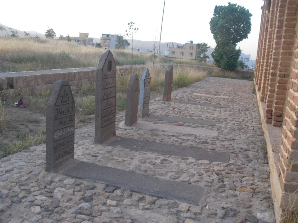 Bodagh Sultan Tomb